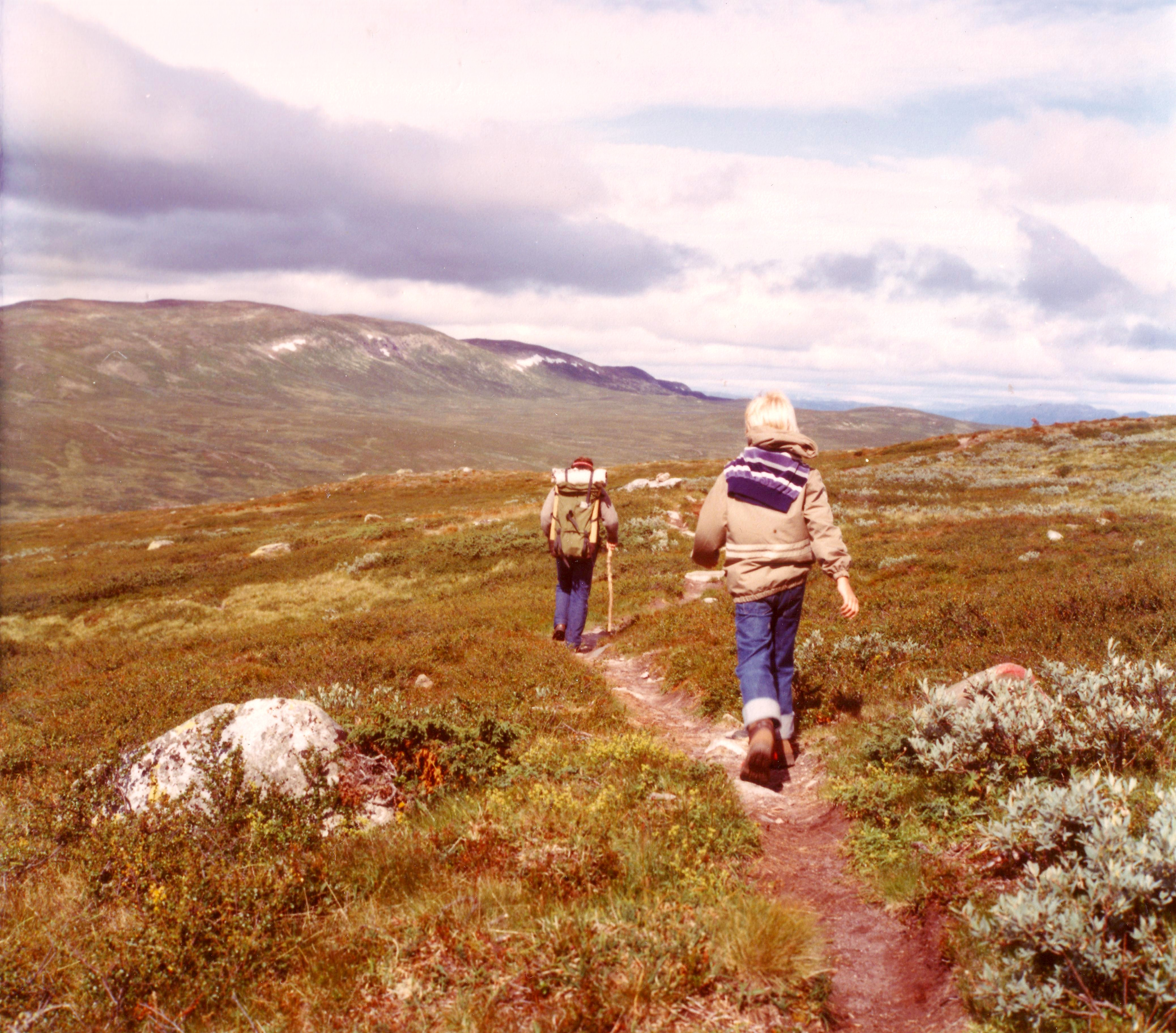 Tour over the Hardangervidda-Fjell